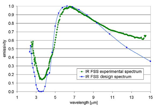 Energy collection results of nantenna device, Removed from the following pages: Nantenna --OrphanBot (talk) 06:59, 6 May 2009 (UTC)